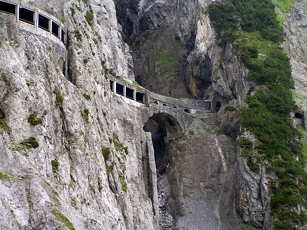 Part of the so called Flexenstraße with the bridge over the Hölltobel between Stuben and Lech in Austria / Vorarlberg